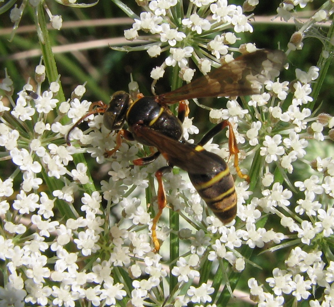 Sand wasp, Saygorytes phaleratus, on queen Anne's lace. Pennypack Restoration Trust, Montgomery County, Pennsylvania, USA.